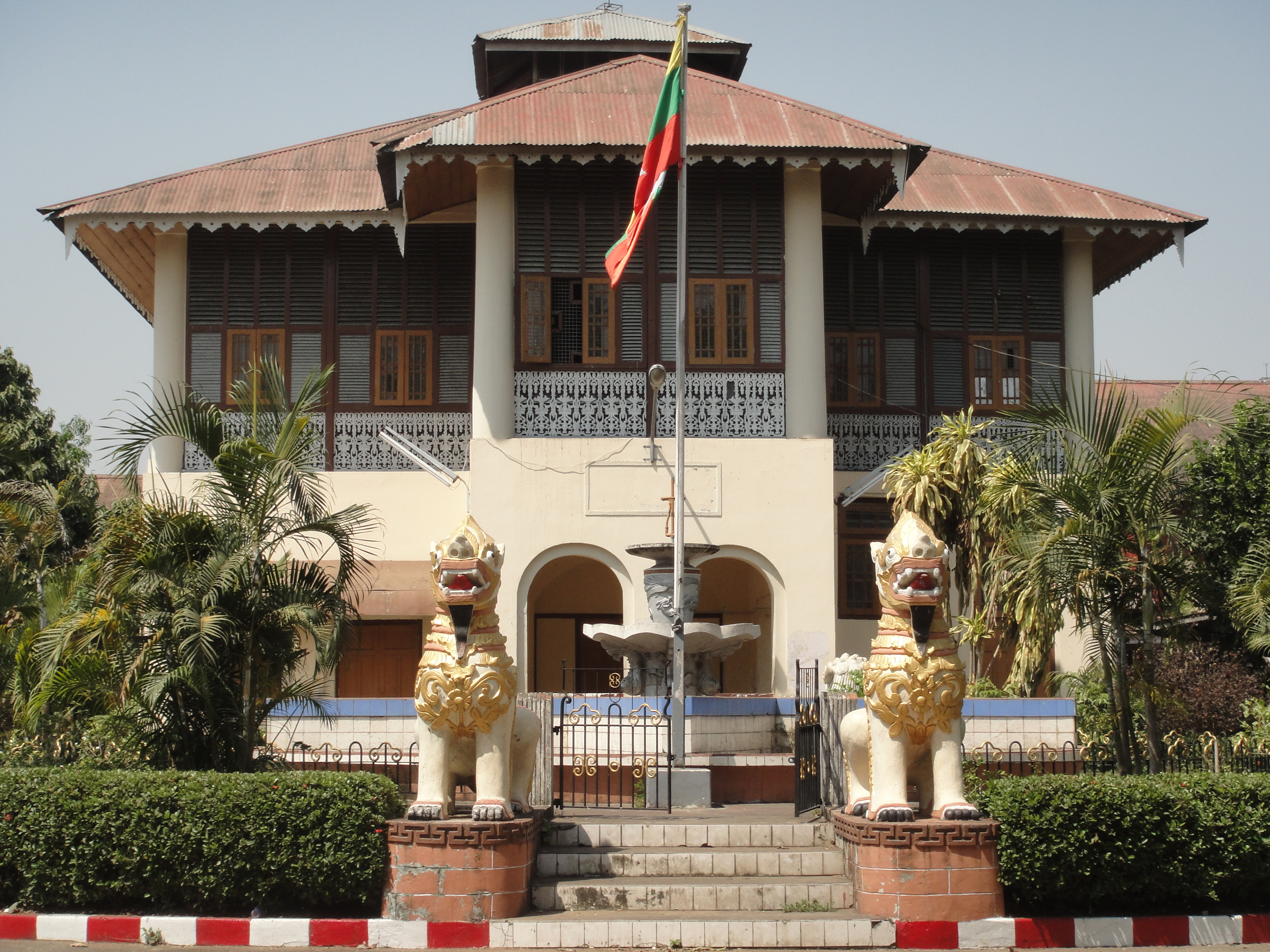 Department of Basic Education No. 3, Yangon